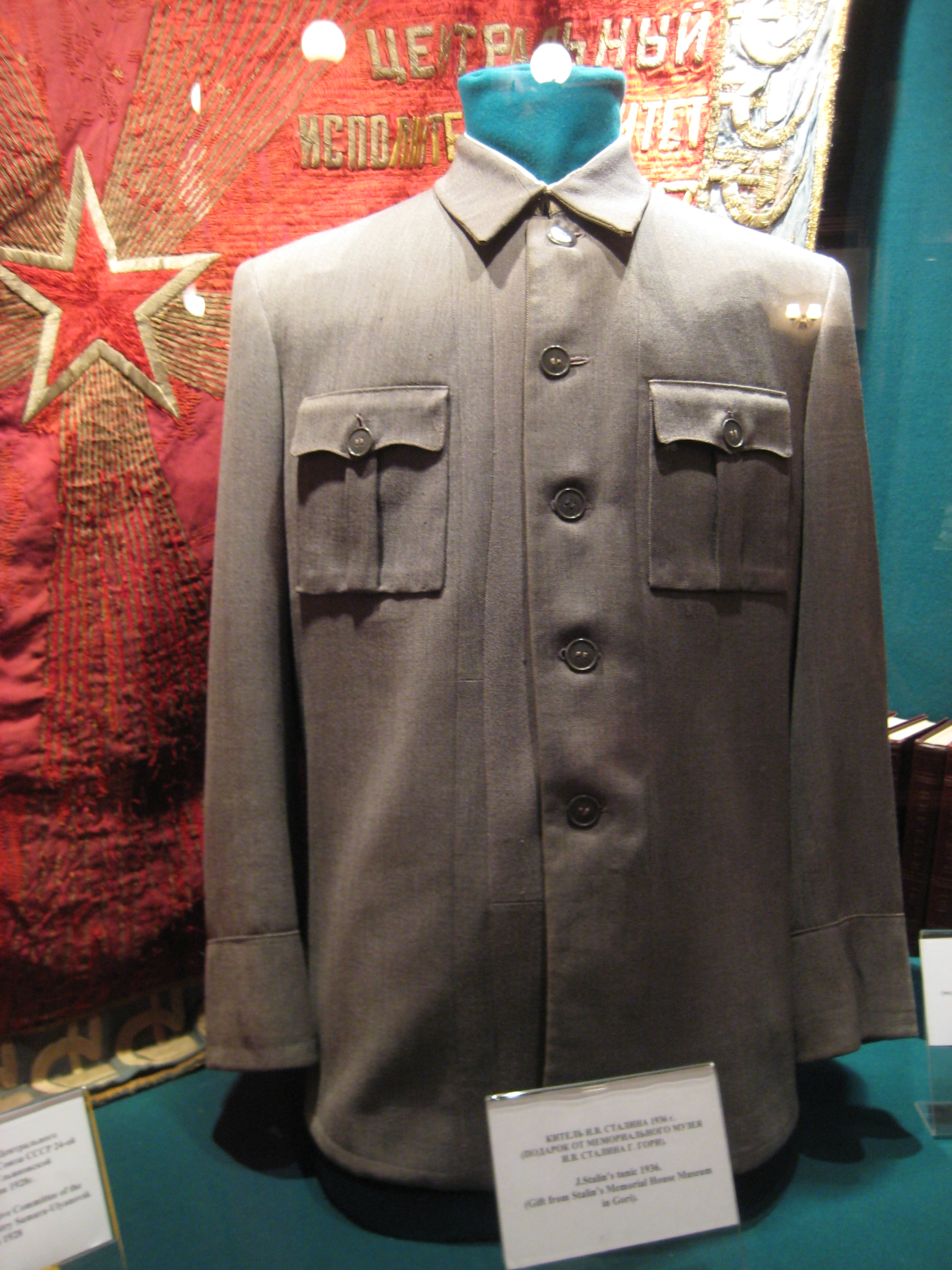 Kitel (tunic) of Joseph Stalin’s (bunker Izmaylovo), a present of the museum in Gori.